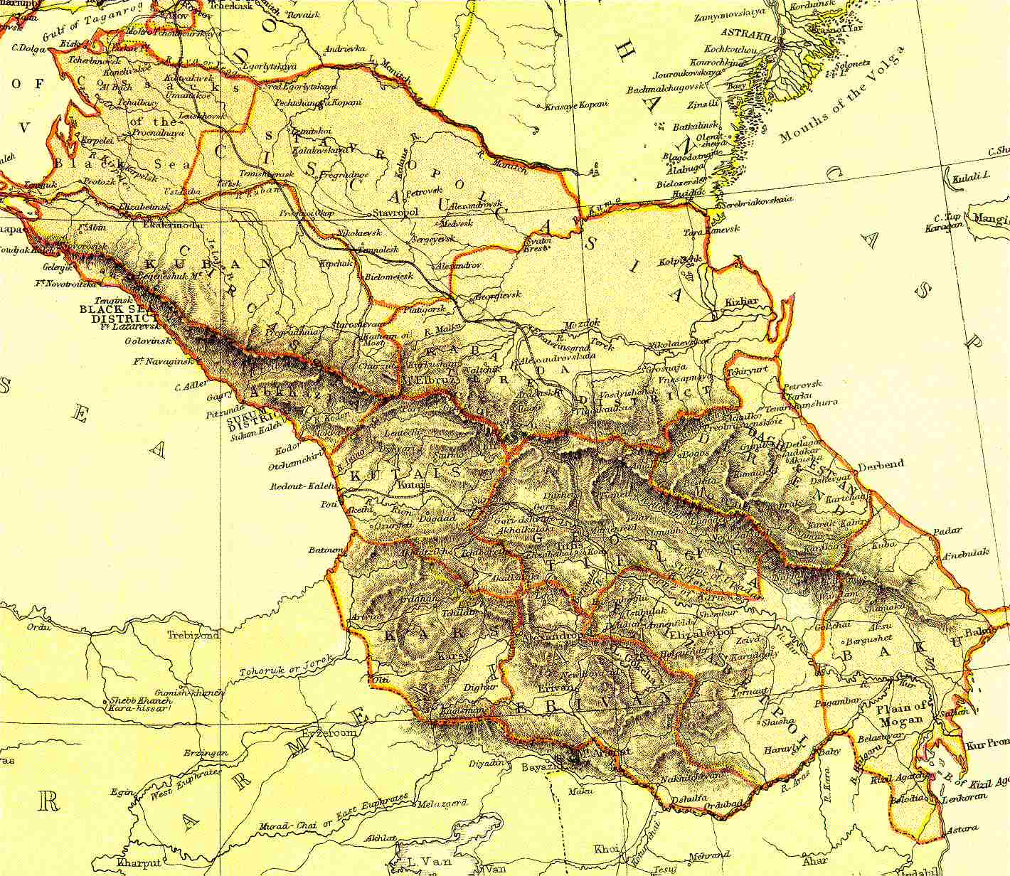 Русский (Russia), South Caucasus/Trans-caucasian States: Georgia, Armenia, and Azerbaijan. Scale: 1:6,100,000 (or one inch = about 96 miles)